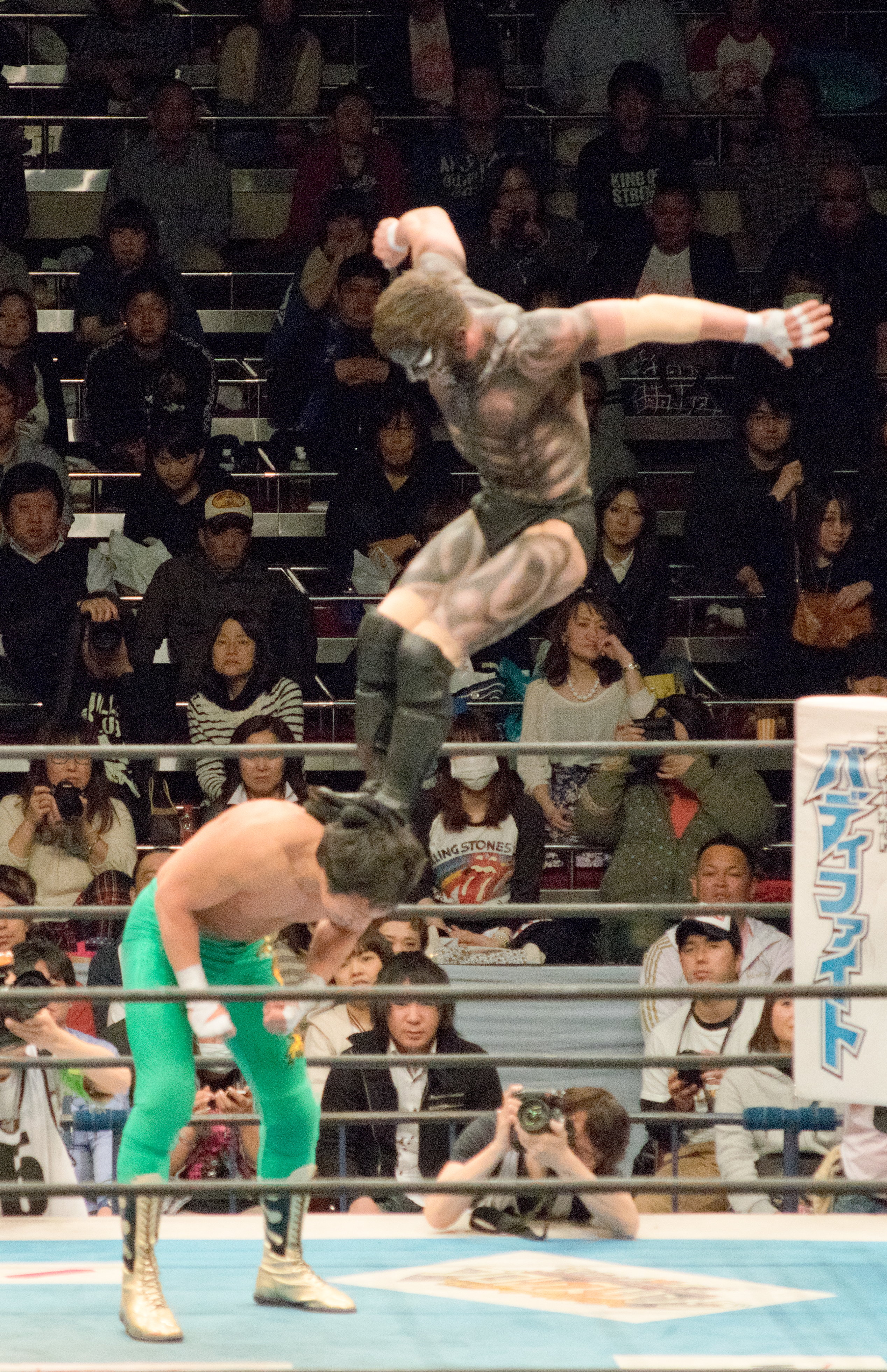 Prince Devitt and Ryusuke Taguchi at Invasion Attack 2014